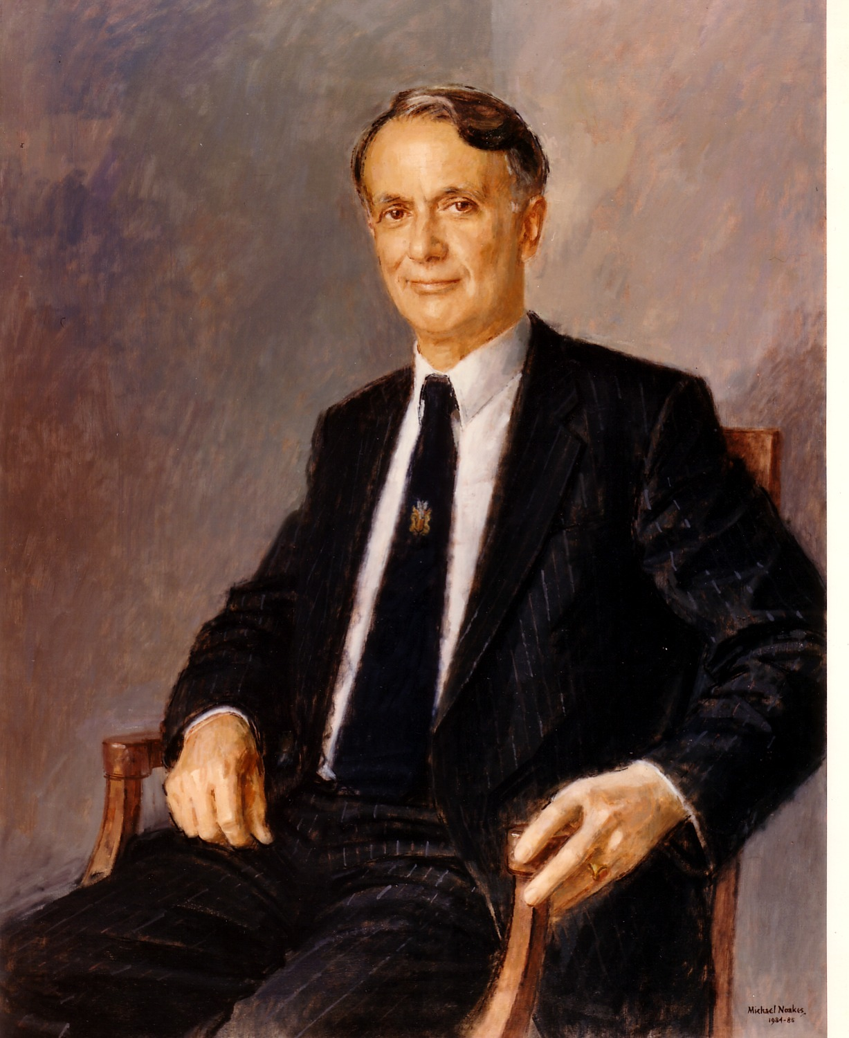 Oil painting by Michael Noakes. Commissioned by the Royal College of Psychiatrists in 1985.